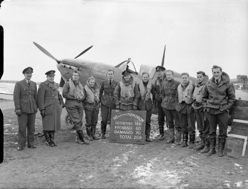 Royal Air Force Fighter Command, 1939-1945. Pilots and non-operational officers of No 92 Squadron RAF standing in front of a Supermarine Spitfire Mark I at Manston, Kent, with the squadron "scoreboard" amended to record their 130th enemy aircraft destroyed. They are (left to right): Flying Officer "Judy" Garland (Engineering Officer), Flying Officer T Weiss (Intelligence Officer), Pilot Officer R Mottram, Sergeant R E "Tich" Havercroft, Flight-Lieutenant C B F Kingcombe, Squadron Leader J A Kent (Commanding Officer), Flying Officer T B A "Jock" Sherrington, Pilot Officer C H Saunders, Flying Officer R H Holland, Flying Officer A R Wright, Sergeant H Bowen-Morris and Sergeant J W Lund.